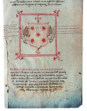 Frontispiece of Alfonso de Zamora’s interlinear translation Genesis